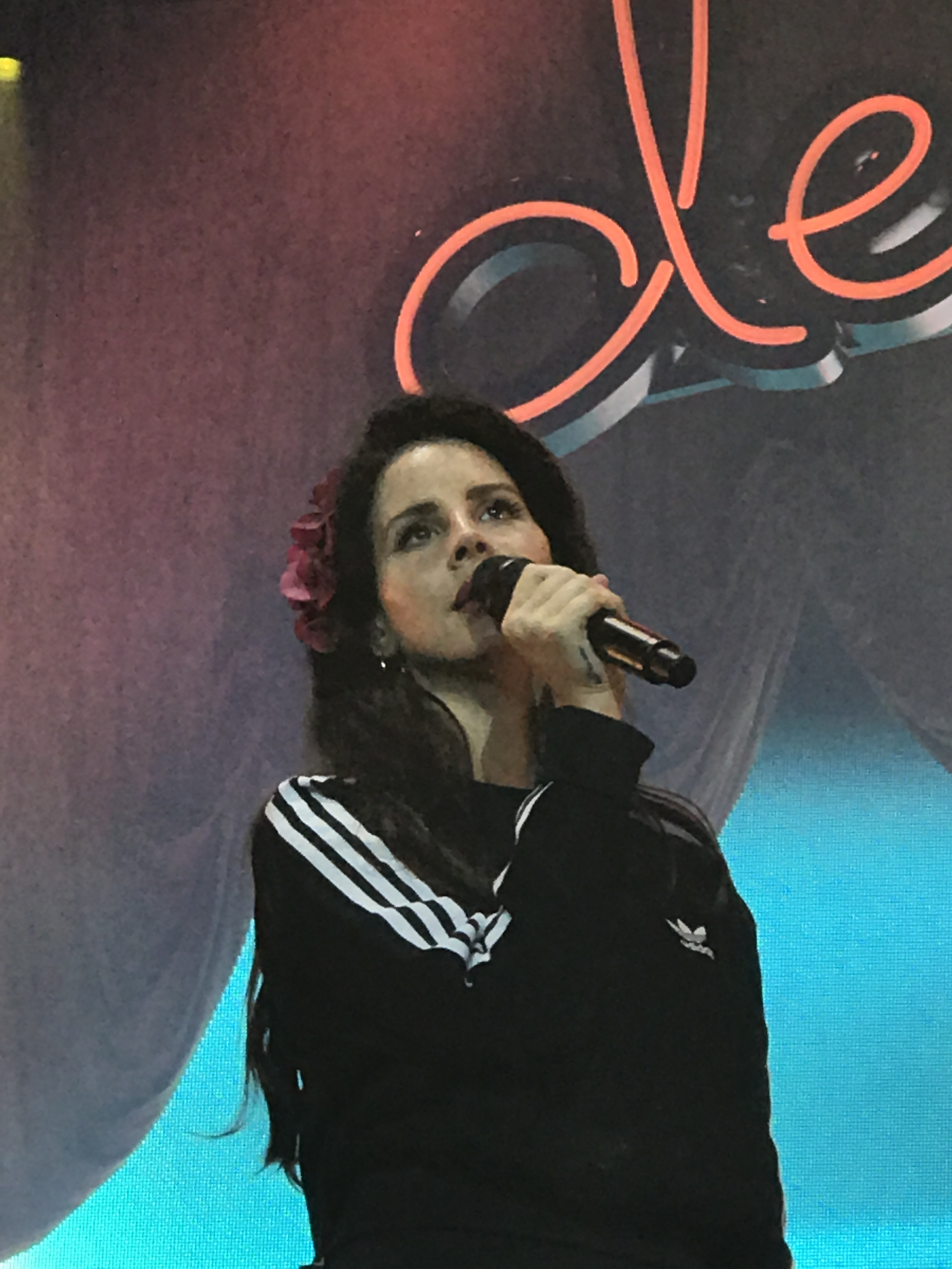 Lana Del Rey performing during the Flow Festival 2017 (Helsinki, Finland).